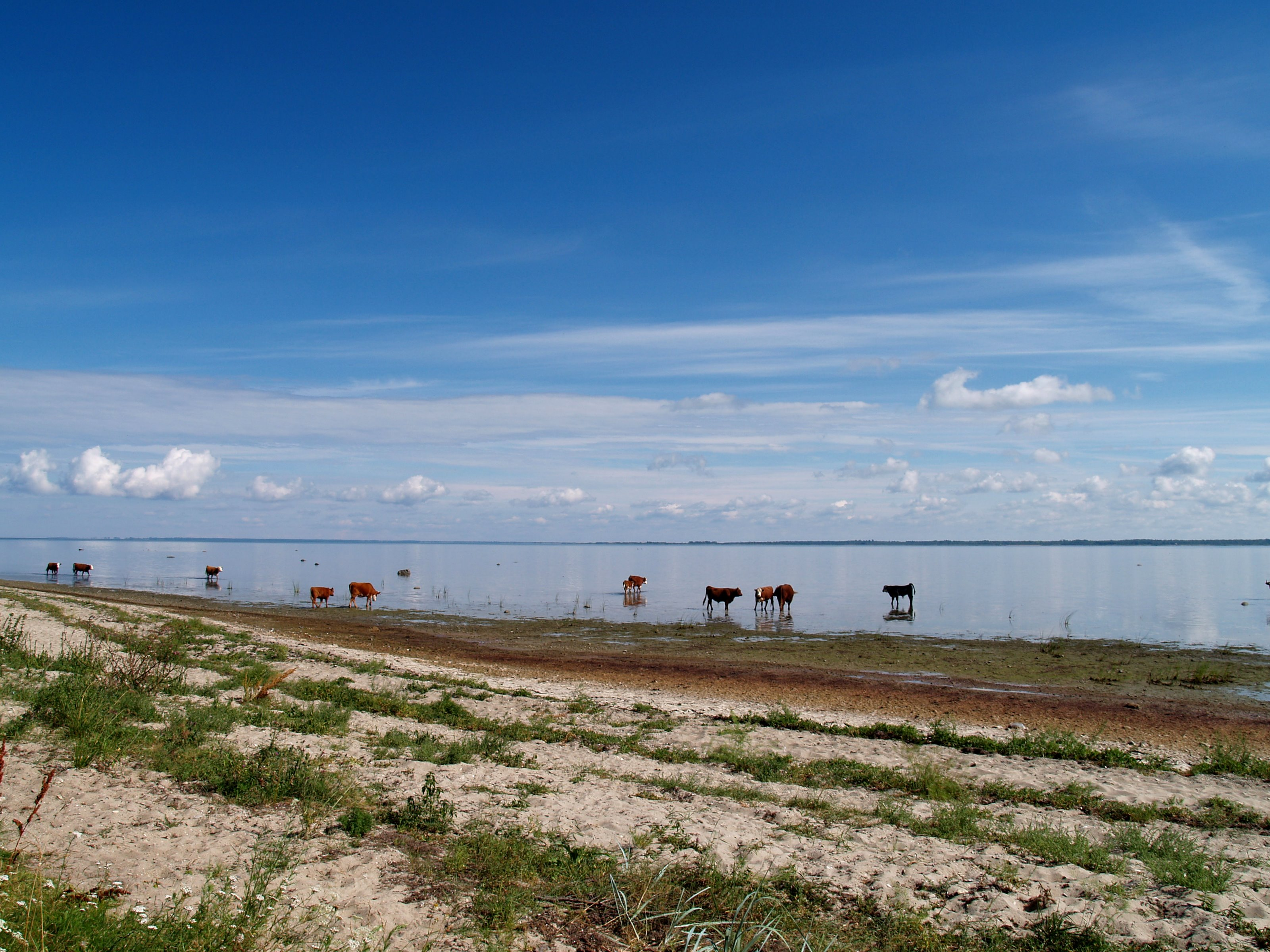 Kesselaid. The seawater of the Baltic Sea contains that few of salt that animals can drink it.